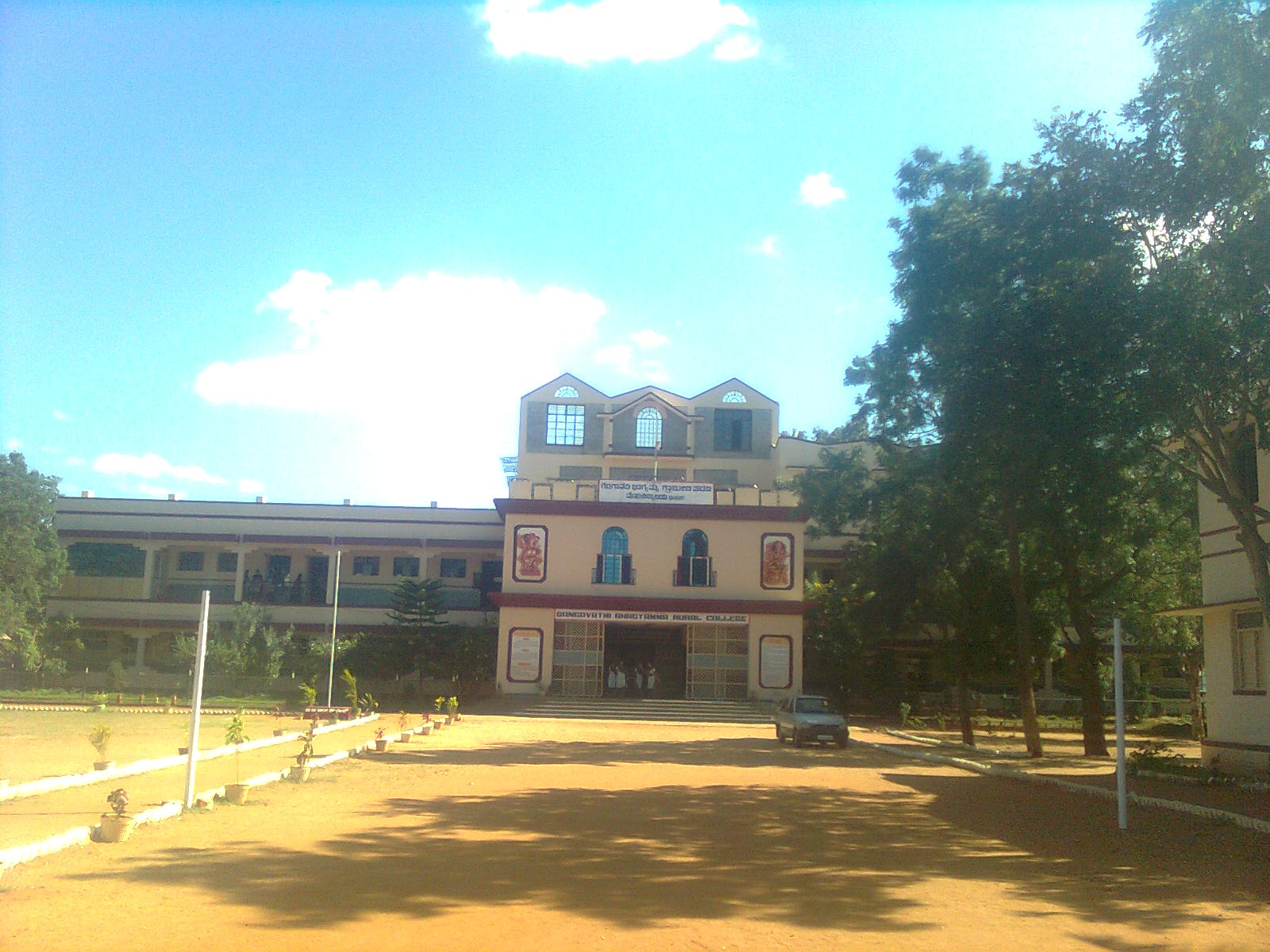 G.B.R COLLEGE HOOVINA HADAGALI